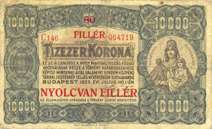 10 000 Hungarian korona (1923) with "80 fillér" overstamp - obverse